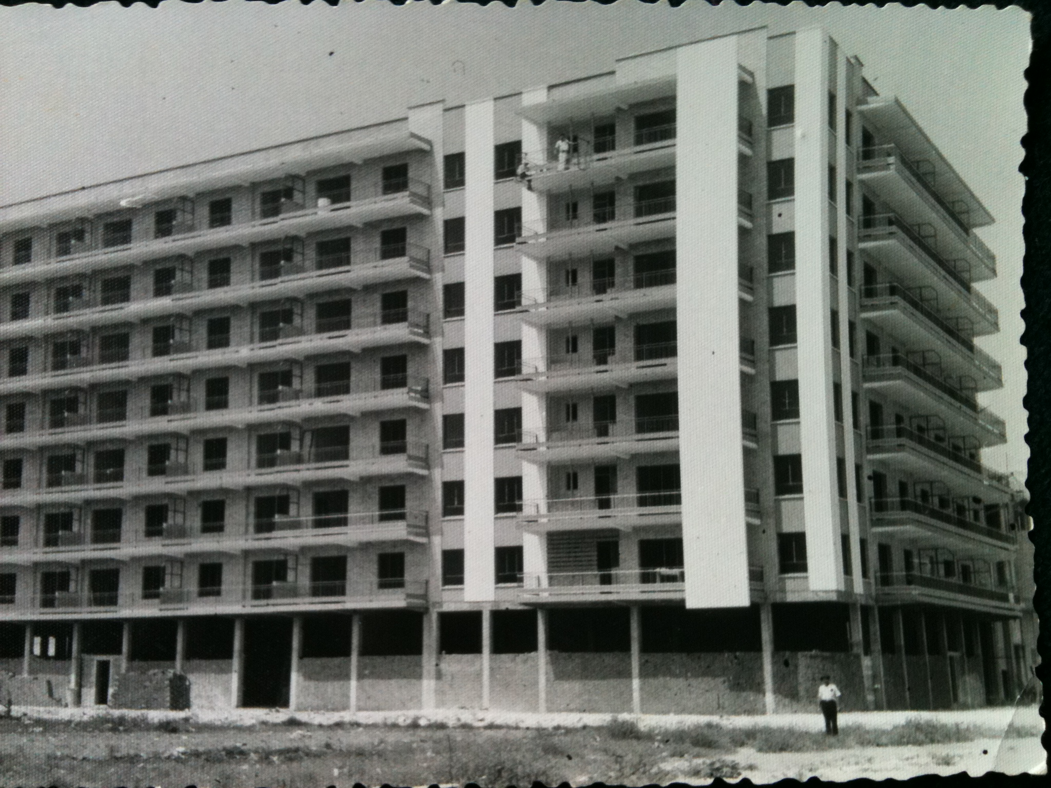 Alquenencia Parc from Alzira, Valencia (Spain)